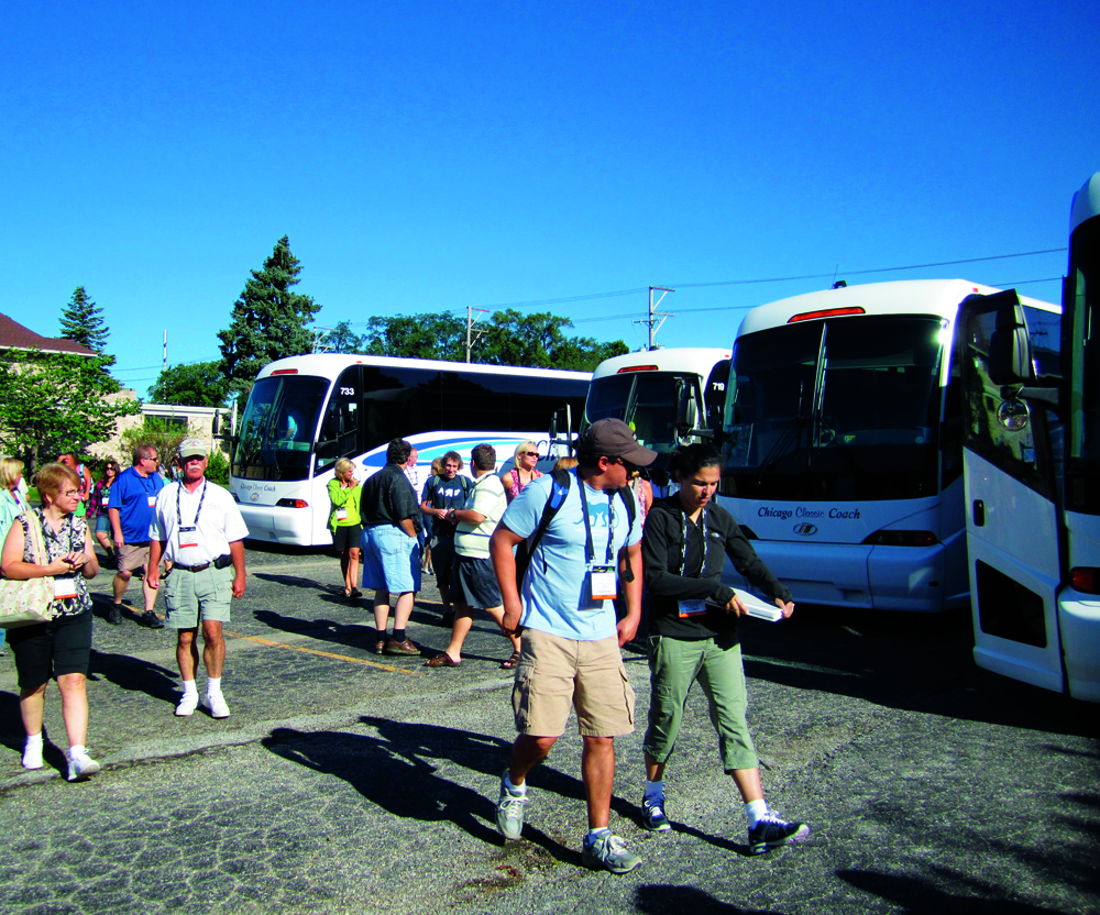 IGC retailers tour the best garden centers that the surrounding areas have to offer on the IGC Show Monday Garden Center Tour the day before the IGC Show trade show floors open.